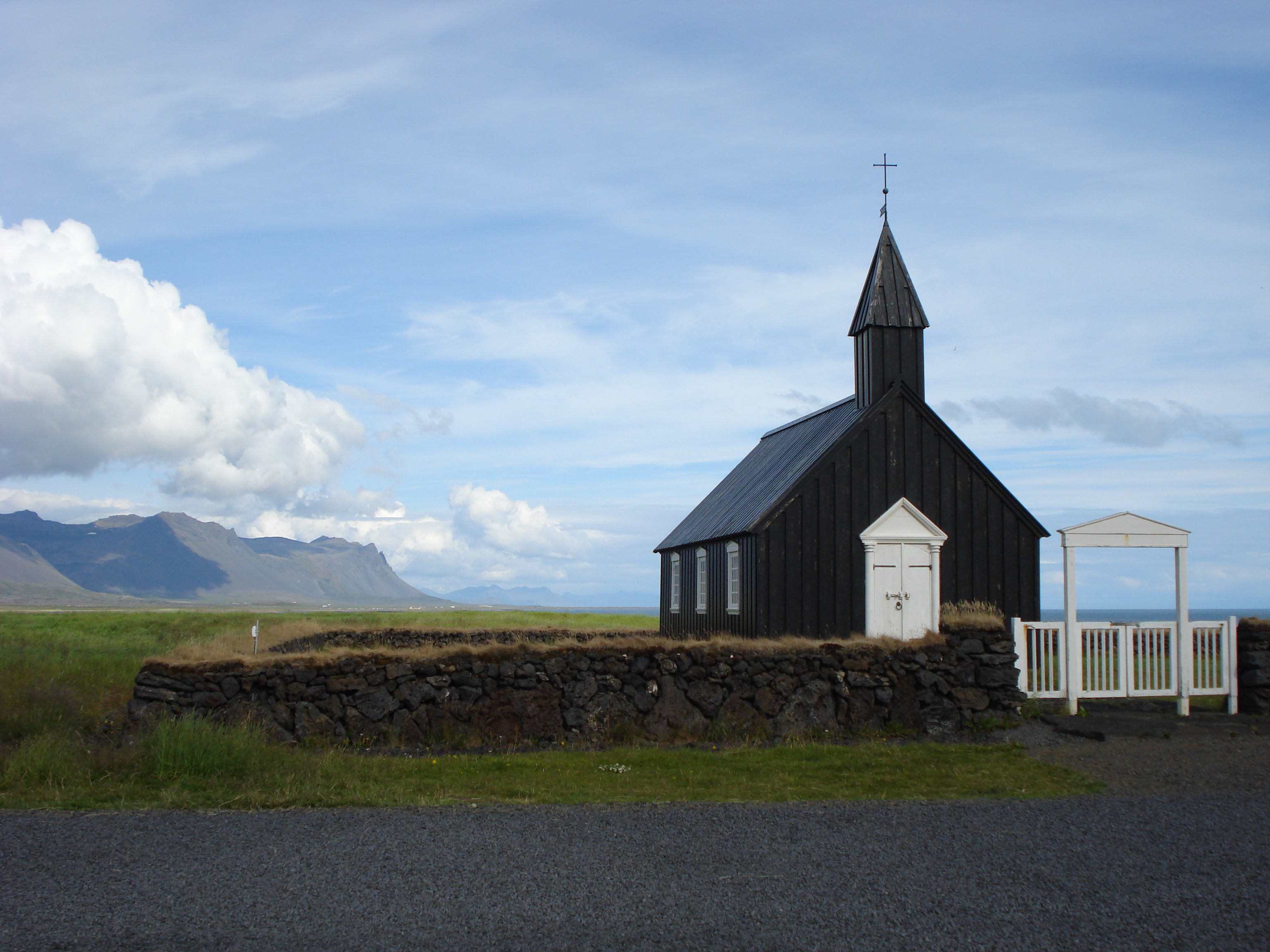 Church in Búðir, Snæfellnes, Iceland